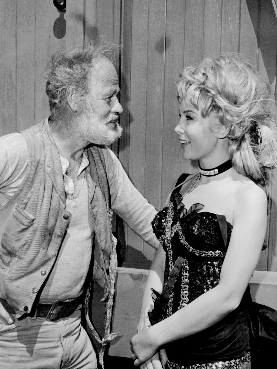 Photo of Paul Brinegar as Wishbone and guest star Barbara Eden from a 1964 episode of Rawhide. The item has no copyright markings on it as can be seen in the links above.